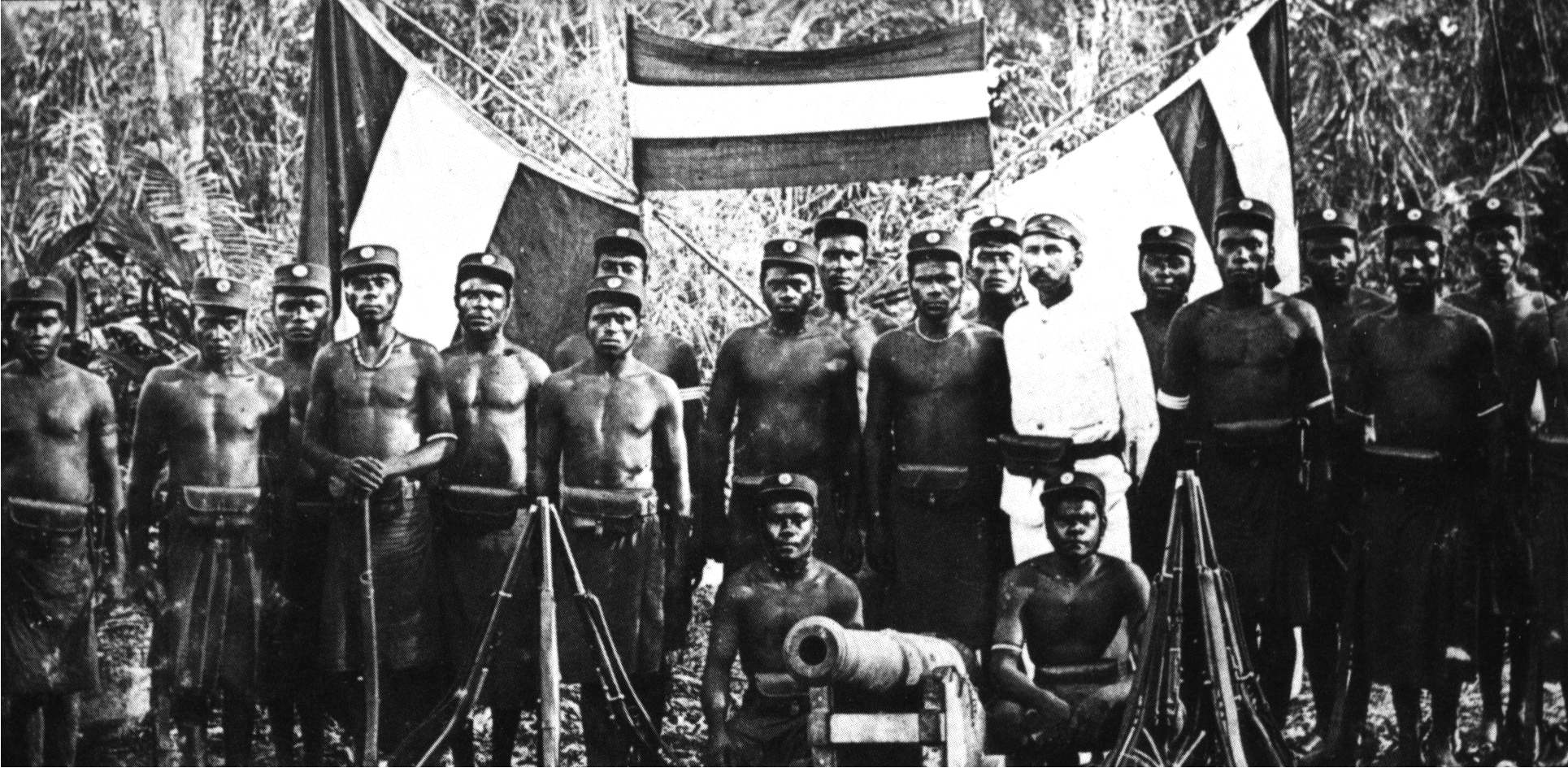 Police in New-Guinea, about 1885